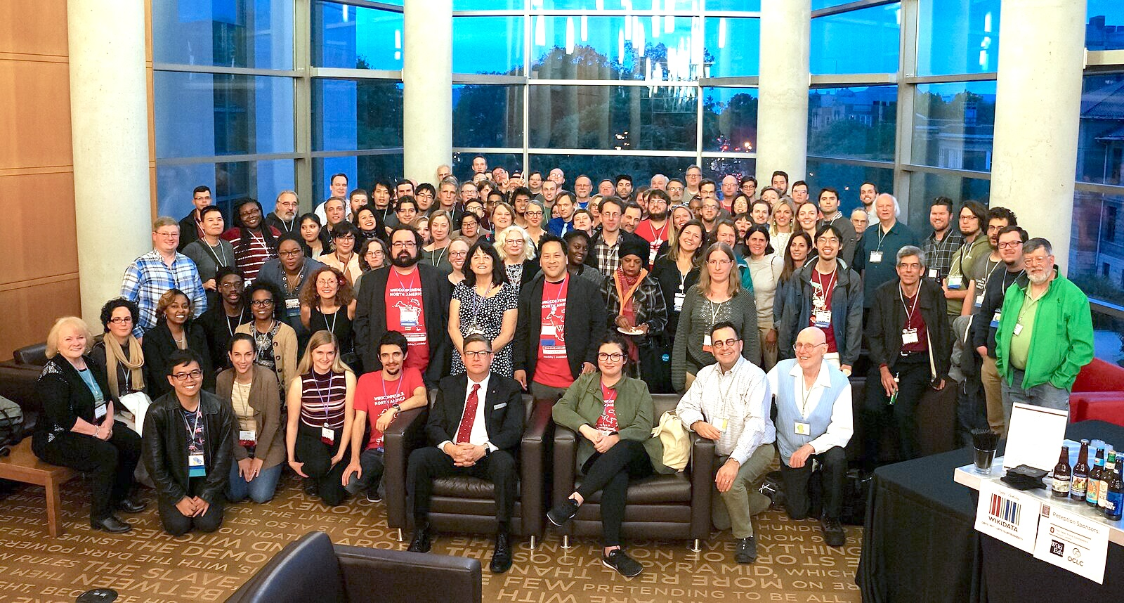 WikiConference North America 2018 - Friday Group Photo